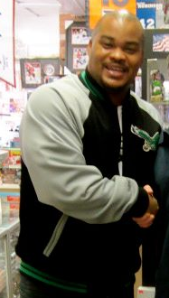 Former Eagles Runningback Duce Staley